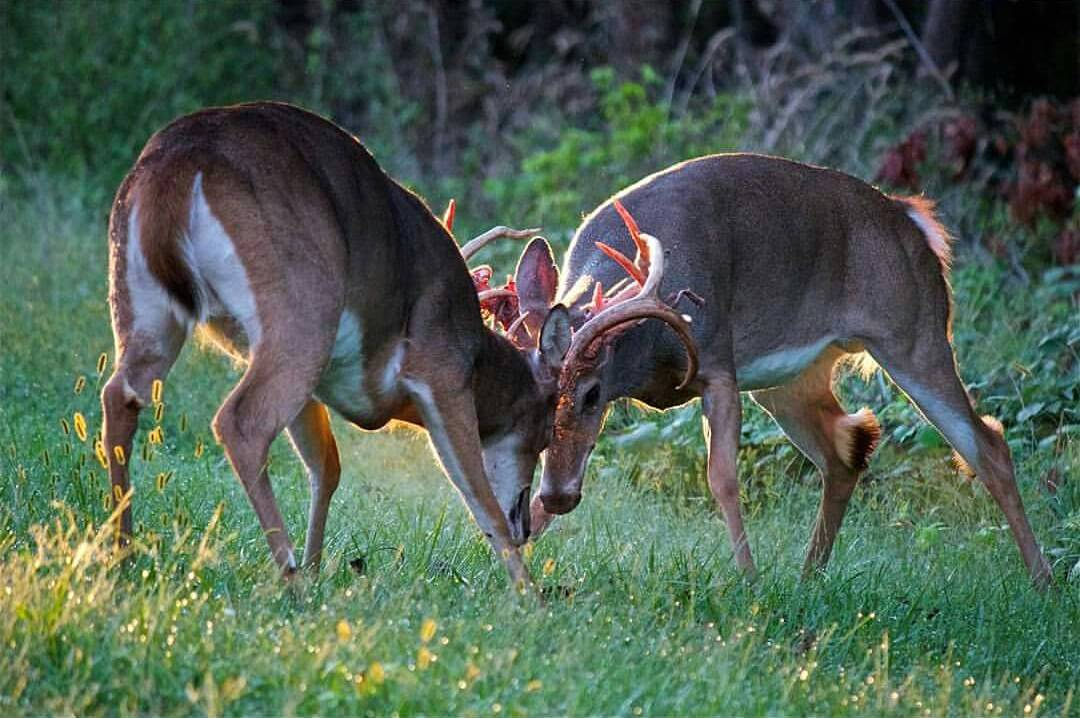 "CRACK!" The sound that awoke a park neighbor was a buck battle on Camp Hill. Signs of fall are all around the park now, from slowly changing leaves, to animals preparing for winter. (NPS VIP photo/Baker, taken 9/10/2012)~mh #harpersferry #harpersfer